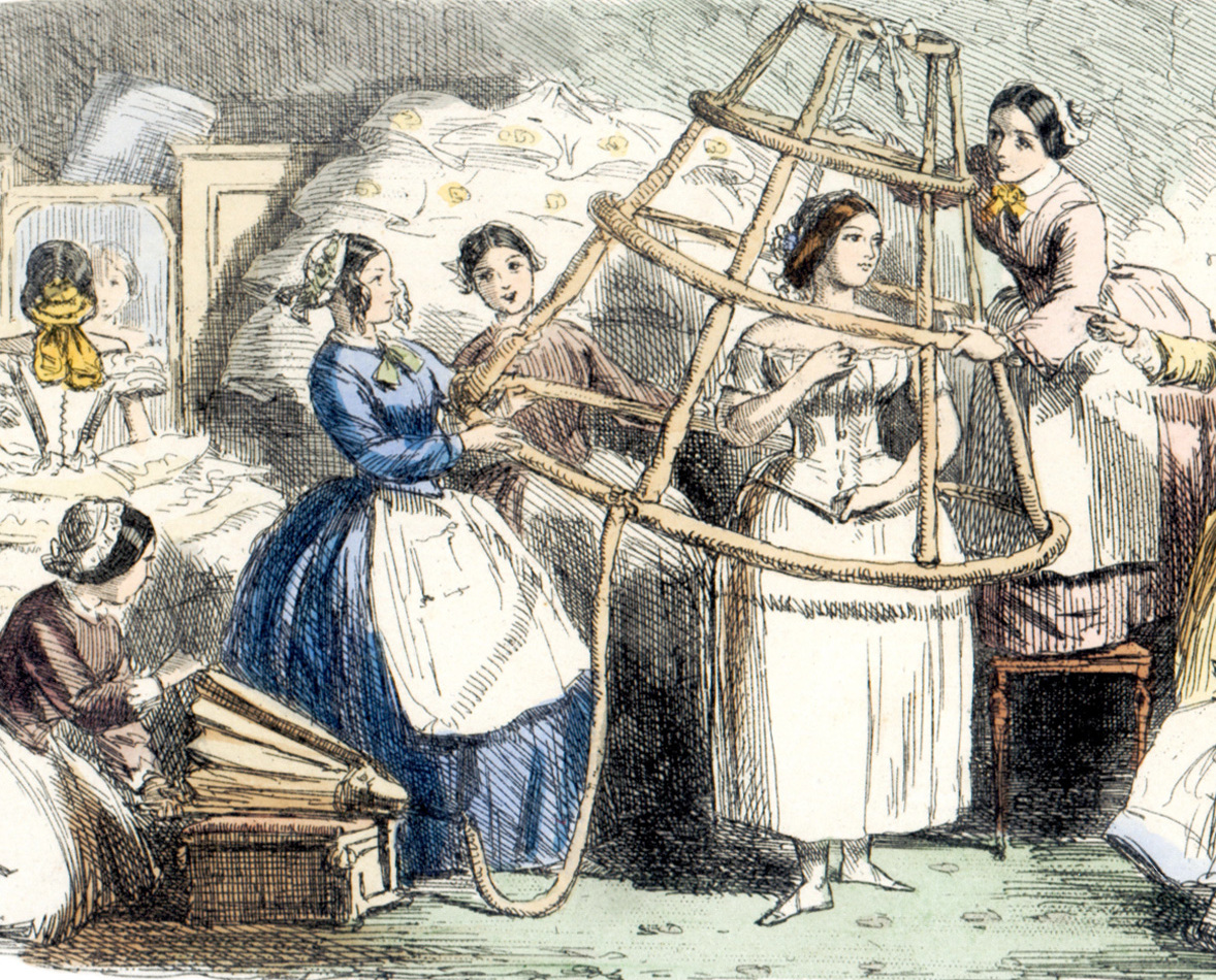 Caricature by John Leech depicting a young woman being dressed for a ball in an inflatable crinoline, with a maidservant pumping air to inflate the petticoat